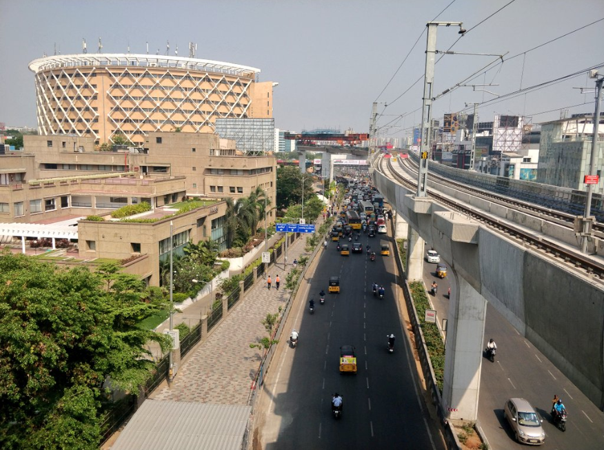 Hitecmetro